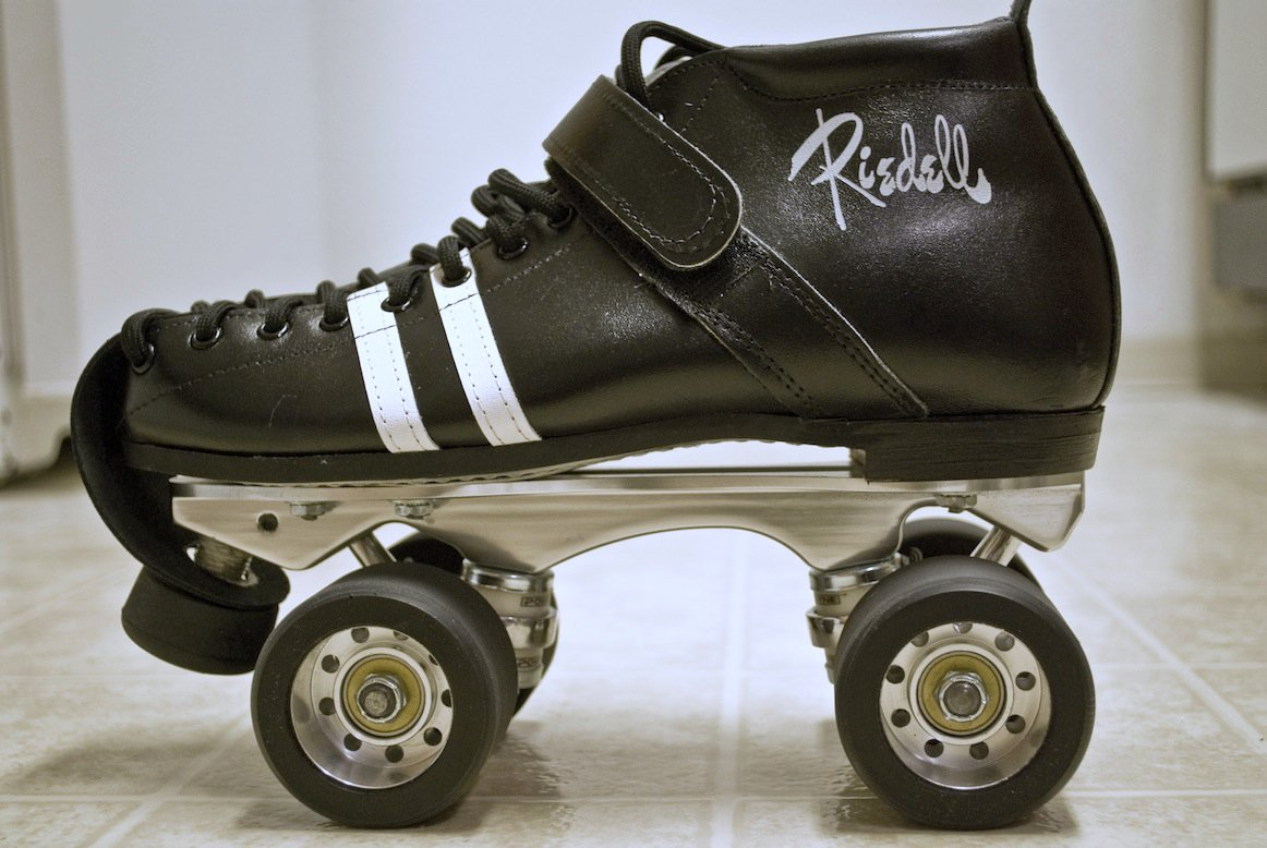 A Riedell Wicked skate.